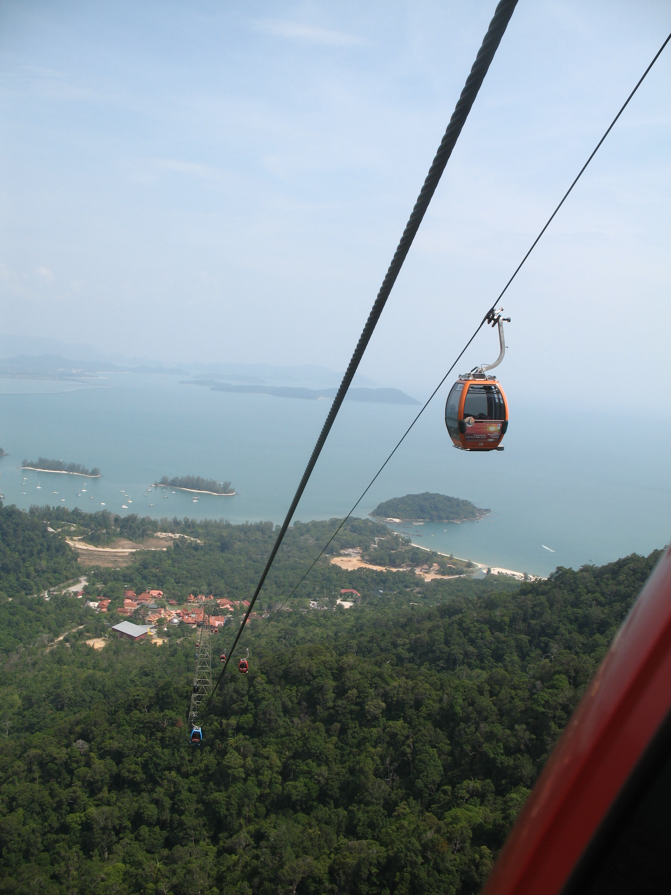 View of the gondolas on the Langkawi Cable Car ride